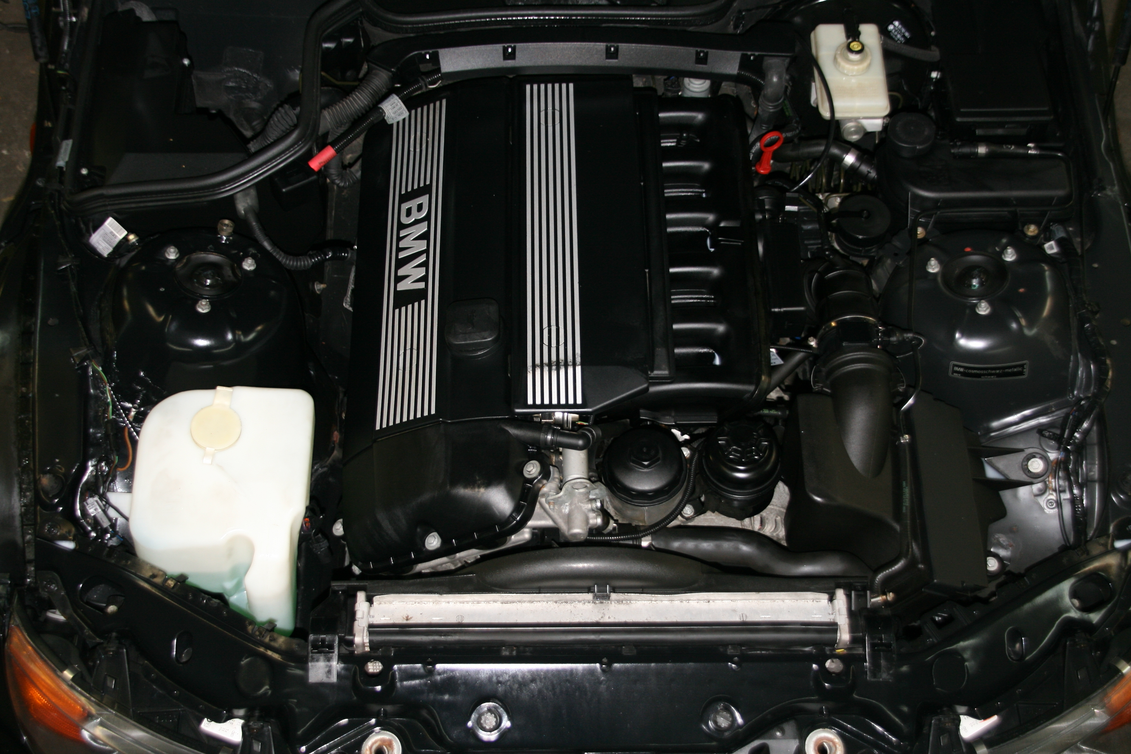 BMW Z3 2.0i 1999 Engine, a zwo-litre In-line six cylinder